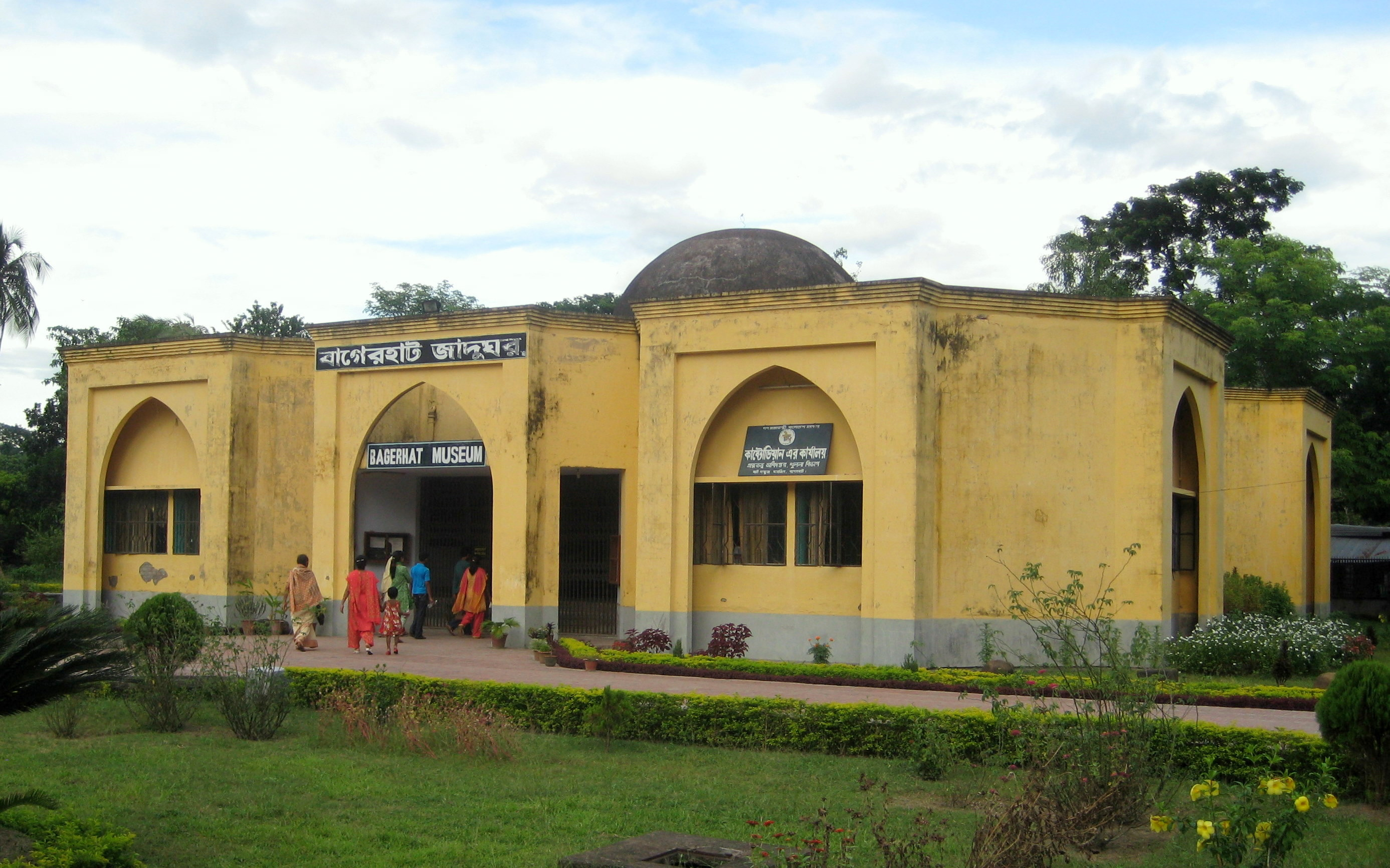 This historic city is located within Bagerhat District in south-west Bangladesh. It was founded by Turkish general Ulugh Khan Jahan in the early 15th century. It is an enormous Moghol architectural site covering a very large area (160 x 108) square feet. The mosque is unique in that, it has sixty pillars, which support eighty one (81) exquisitely curved domes that have worn away with the passage of time. The structure of the building also represents the 15th century Turki architectural view. It is anticipated that, before 1459 a greatest devotee of Islam named Khan Jahan Ali established this mosque. He was also the founder of Bagerhat district.